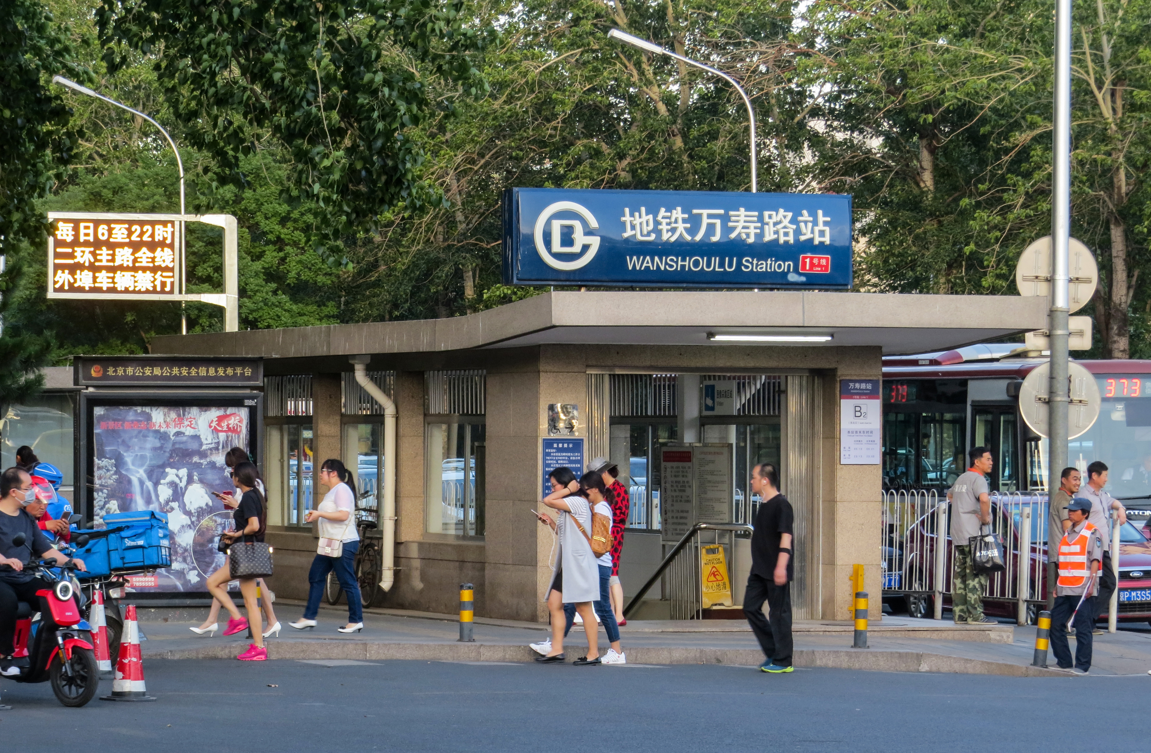 When will the sign switch to L16's pattern?